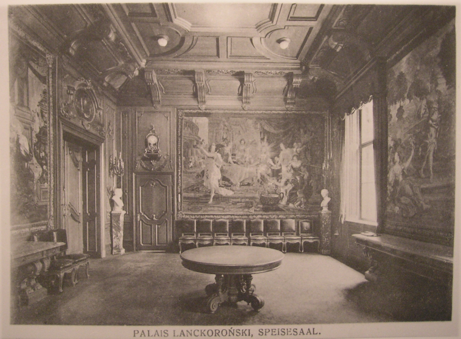 Image of the Palais Lanckoroński in Vienna, which was the private residence of Count Lanckoroński and his vast art collection, which was open to the public. The image is part of a post-card series that were made specifically for the building and its collection.